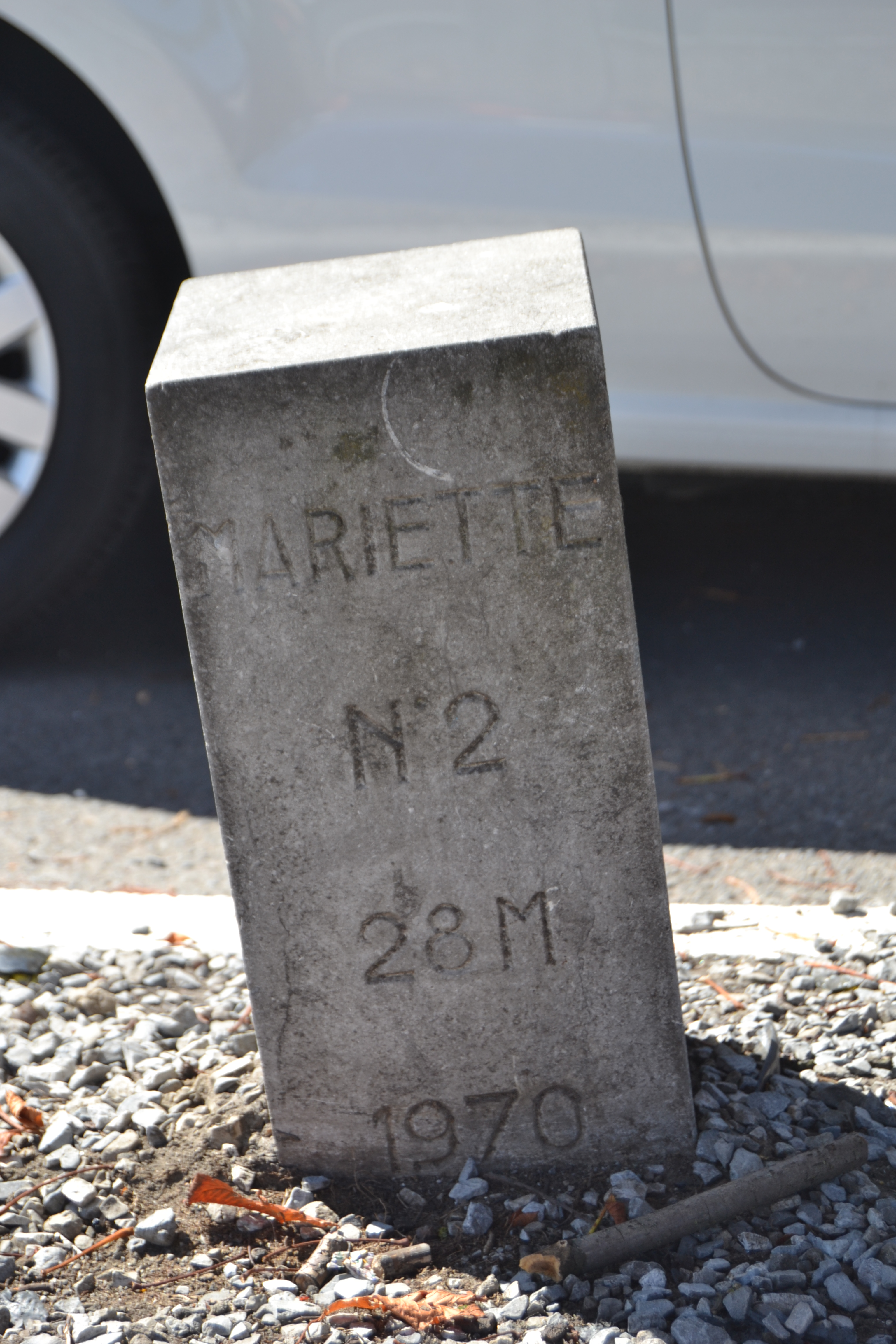 Ancient pit Mariette N°2 at the Fanny seat of the Société anonyme des Charbonnages de Patience et Beaujonc réunis (coal mine in Liège, Belgium)